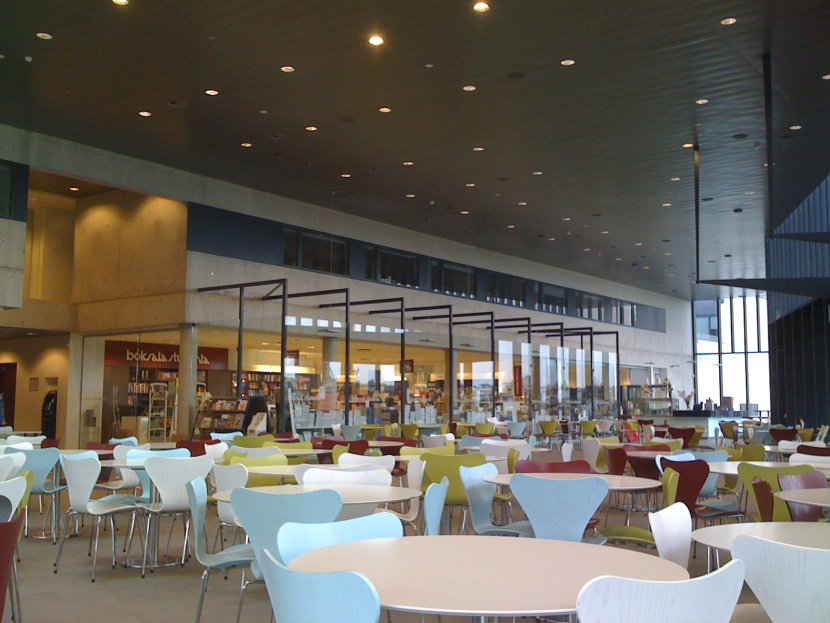 The cafeteria and the bookstore in Háskólatorg, one of the building at University of Iceland.